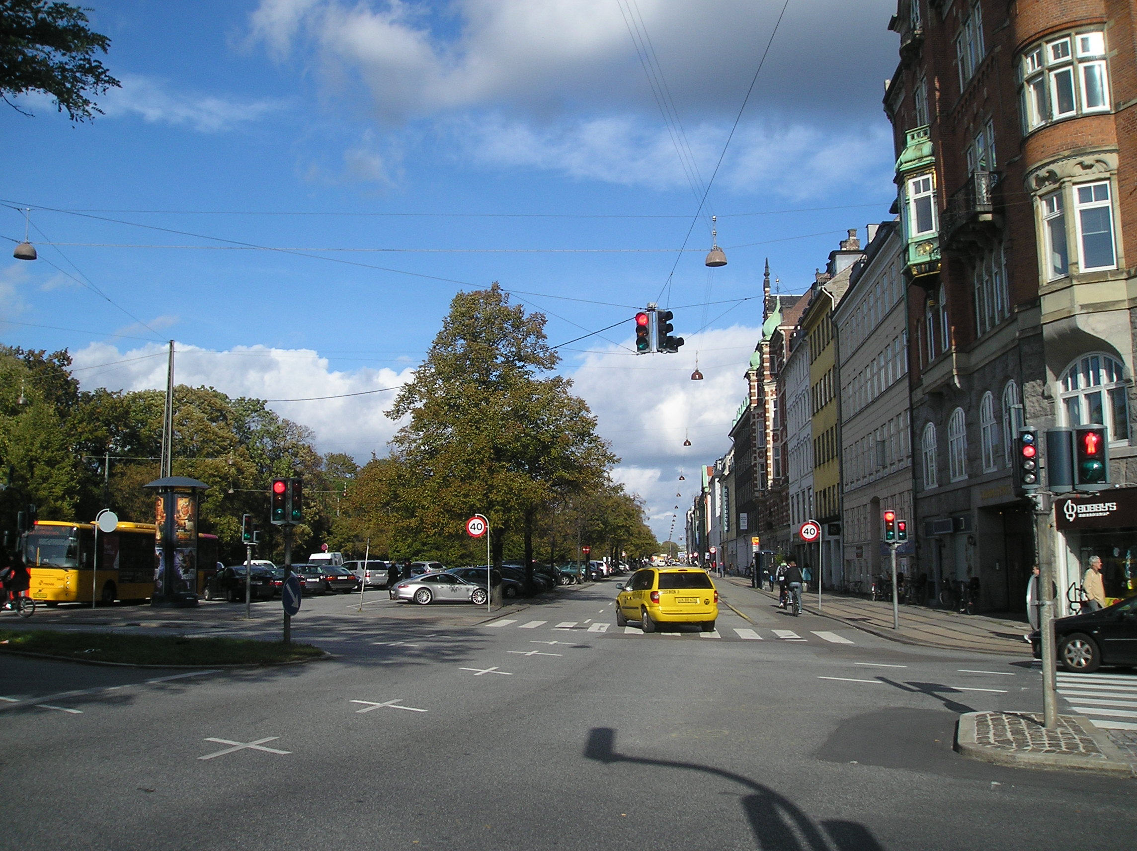 The street Nørre Voldgade in Copenhagen seen from the square Jarmers Plads.